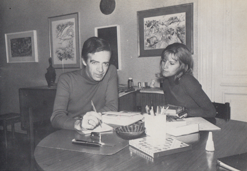 Italian writer and journalist Peter Kolosimo with his wife Caterina in their house in Torino, Italy, about 1972.